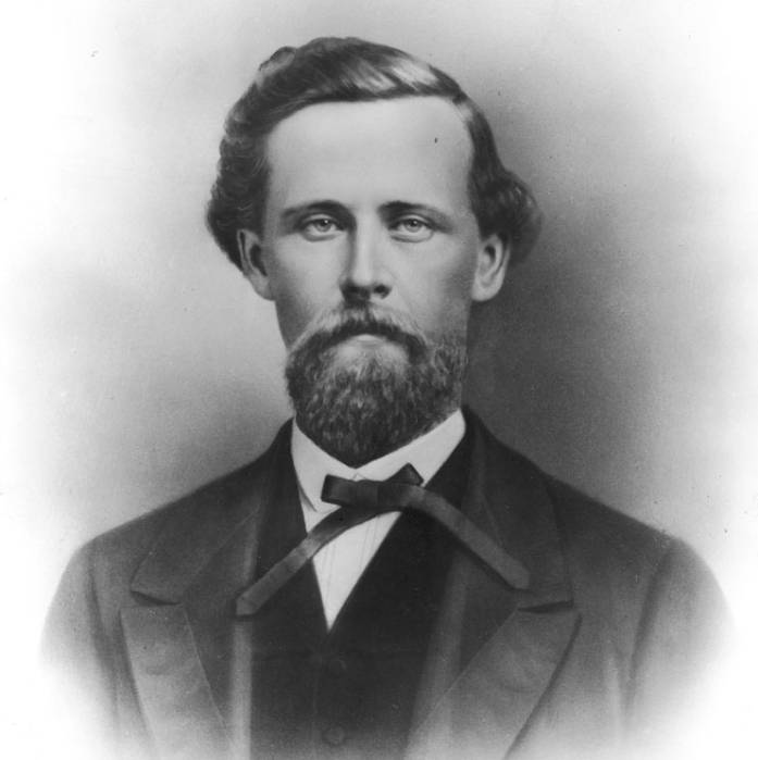 Photo of Vernon H Vaughan, governor of the territory of Utah from 1870-1871.